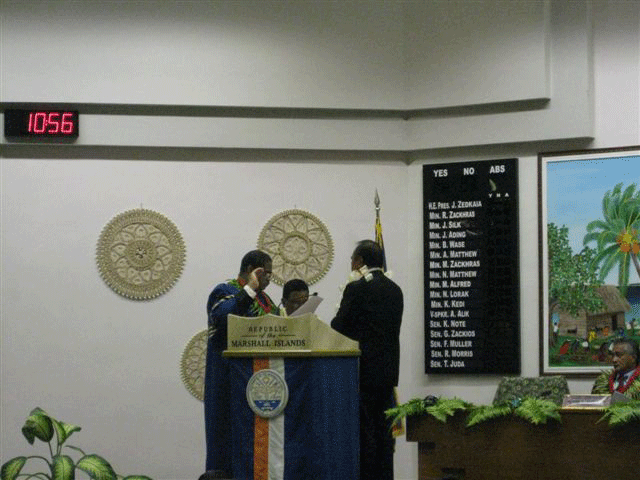 Swearing in of President Jurelang Zedkaia at the Marshallese Nitijela on November 2, 2009. Photo by the U.S. Embassy Majuro